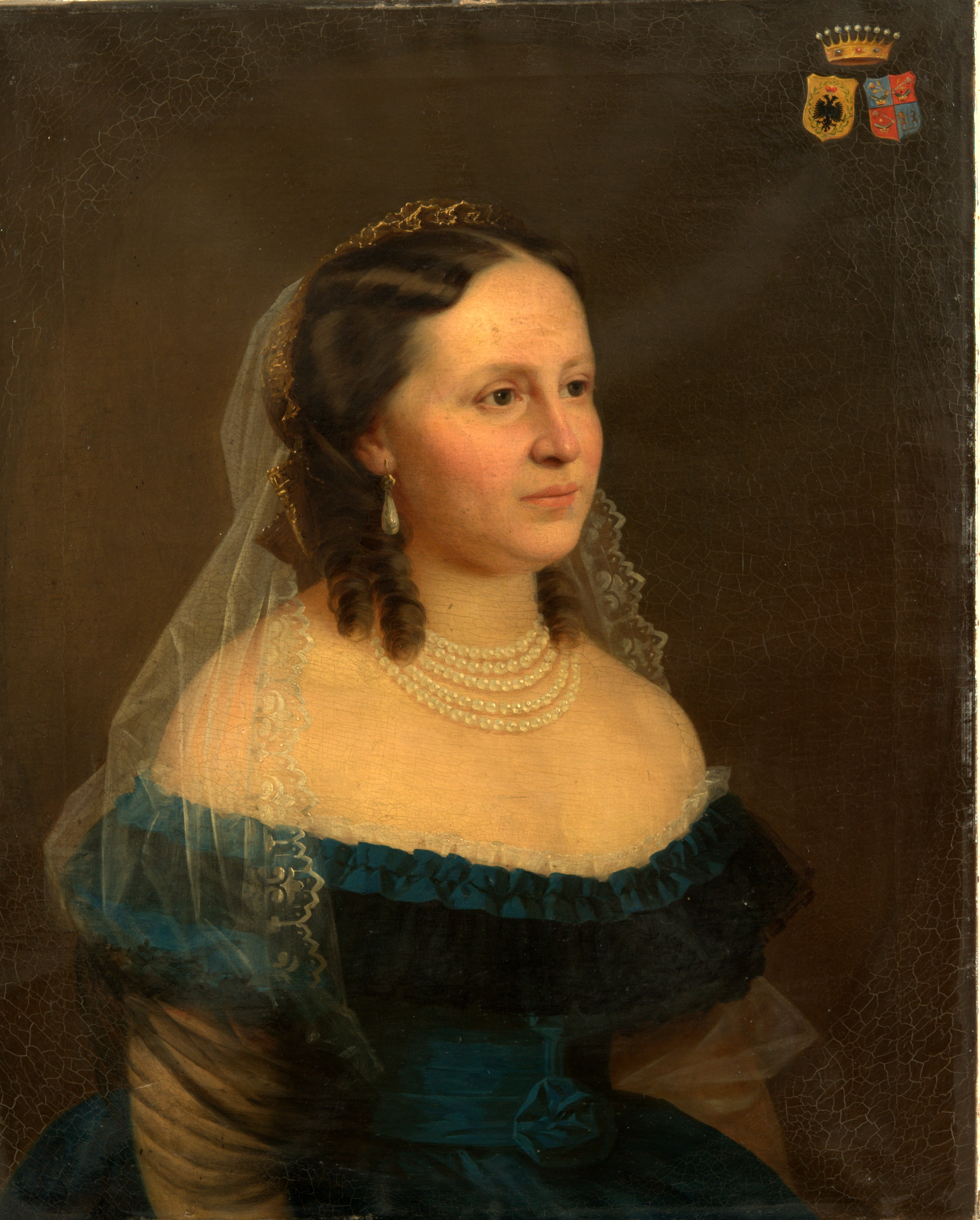 Painting of Karolina Countess Logothetti née Countess Nemes de Hidvég (1825-1906) by an unknown painter c1870. Original painting 61 x 77 cm, now in possession of the Slovácké Muzeum, Uherské Hradiště, Czech Republic. Alliance coat of arms Logothetti (husband: Wladimir count Logothetti) x Nemes de Hidvég. Nikon D300 + AF-S Micro Nikkor 60mm f/2.8G ED